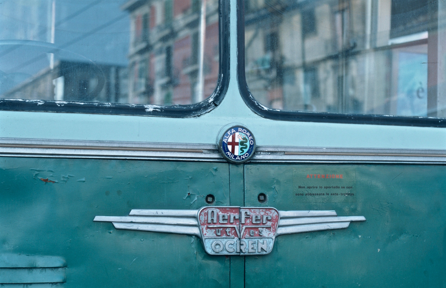 Manufacturers' nameplates on the front of CTP trolleybus 18, a 1962 Alfa Romeo 1000AF / Aerfer-UTVES / OCREN trolleybus, in 1985. The photo was taken while No. 18 was laying over at CTP's former Porta Capuana bus station (on Piazza San Francesco). Although CTP had begun to refurbish its trolleybuses by this date, including repainting from two-tone green to orange and removal of these builders' nameplates, No. 18 had not yet been refurbished. (The small label on the front - directed to CTP workers - reads "Attenzione: Non aprire lo sportello se non sono abbassate le aste-trolleys", which means "Caution: Do not open the door [this maintenance-access door on the front of the vehicle] if the trolley poles are not lowered" (i.e., poles taken out of contact with the electrified overhead wires).)